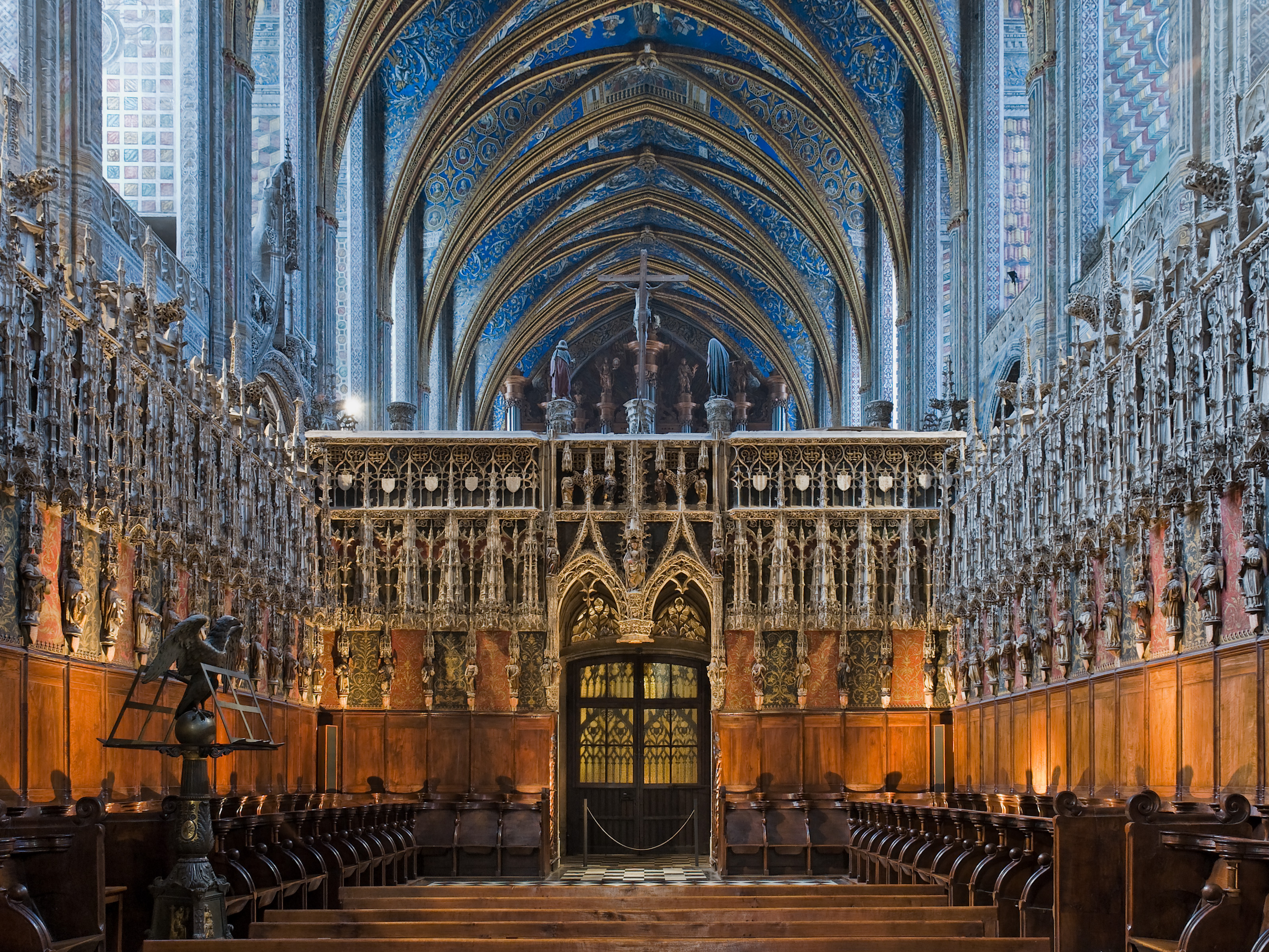 Choir and rood screen (Albi cathedral, France)